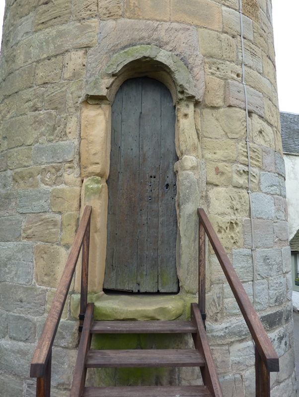 Abernethy Round Tower, Abernethy, Perth and Kinross, Scotland - entrance on northwest side